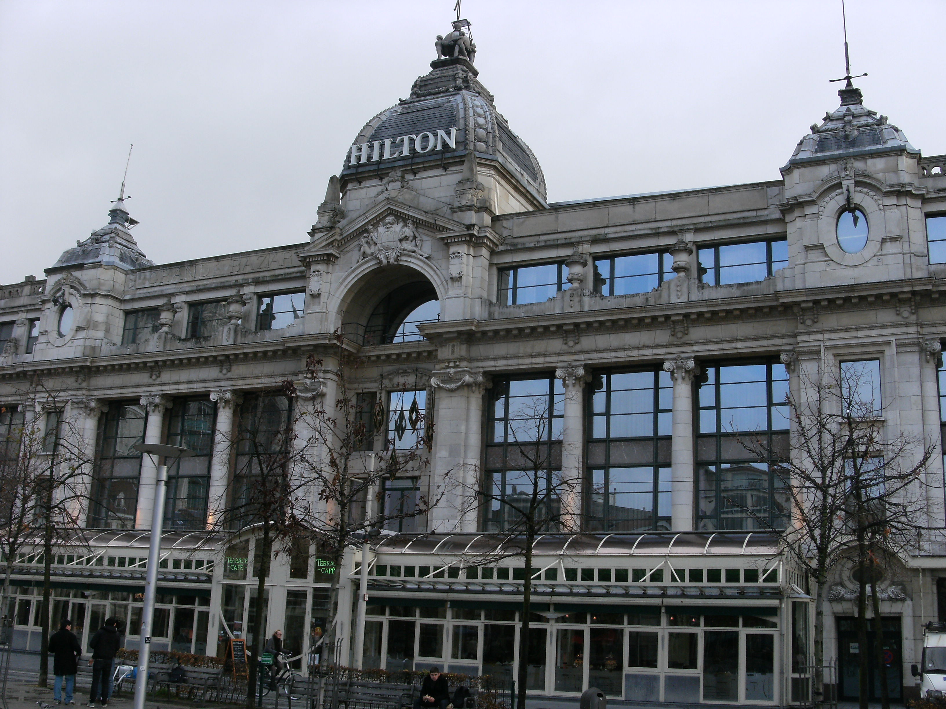 Antwerpen Hilton.